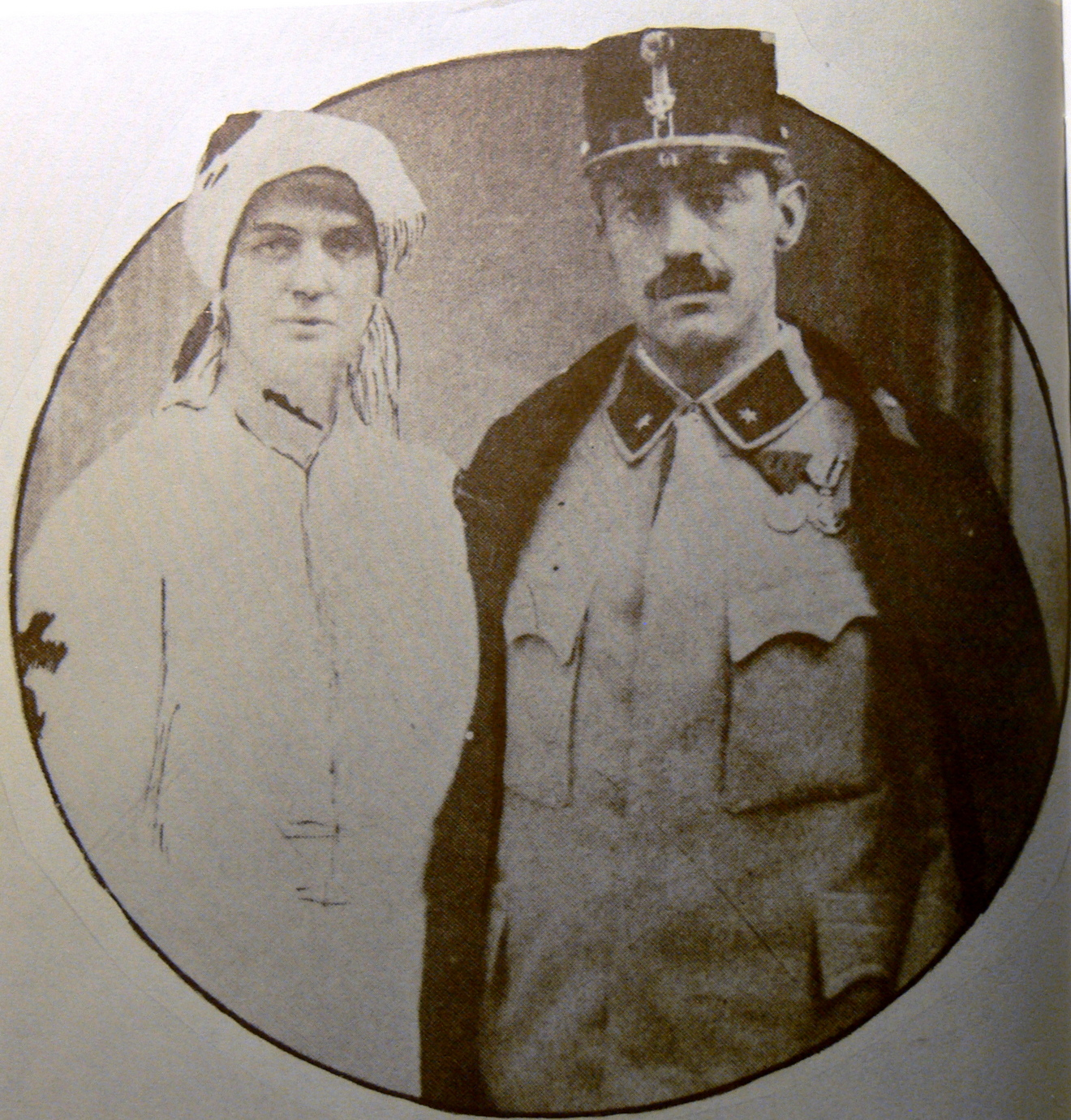 Fritz and Harriet Kreisler in 1914